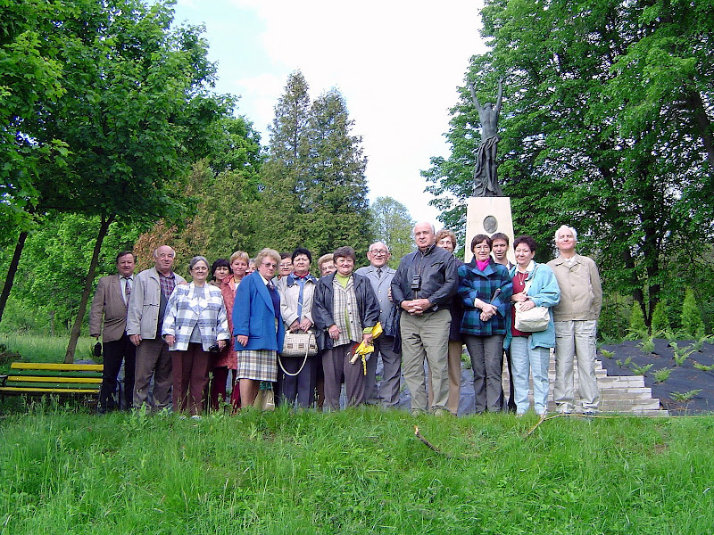 The members of the Friends of Slavic Culture before Madách memorial in Dolná Strehová (2004)